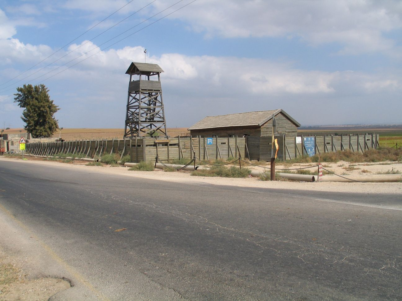 Description: "Homa u-migdal" (a wall and a tower) site in Negba, Israel. Source: Photo by me, User:Bukvoed.